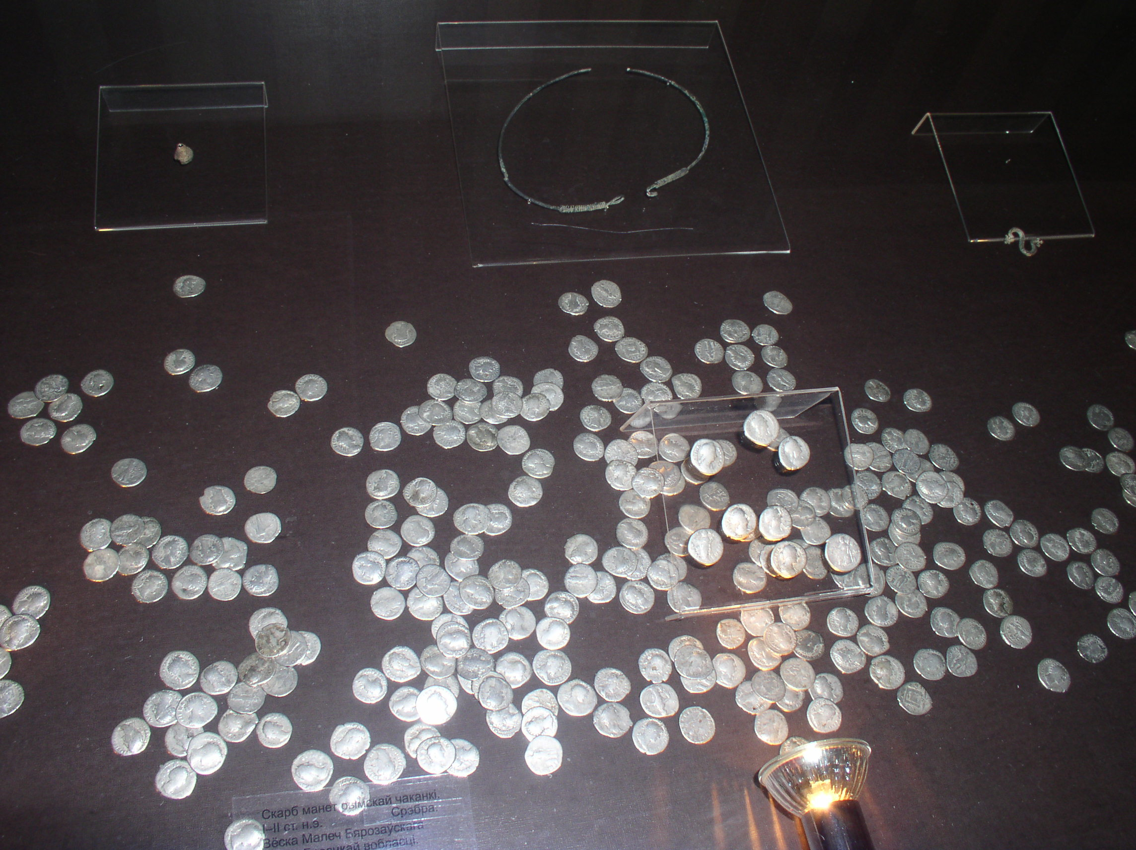 Roman Coins Treasure. 1st – 2nd century AD. National museum of history and culture of Belarus. Karl Marx street, 12. Minsk, Belarus.